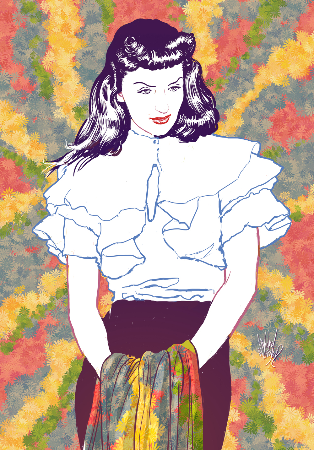 Portrait of Disney artist and animator Mary Blair, from Michael Netzer's Portraits of the Creators Sketchbook.